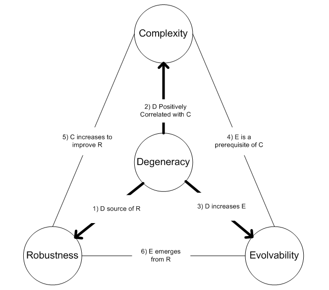 diagram illustrating important relationships in the evolution of biological complexity